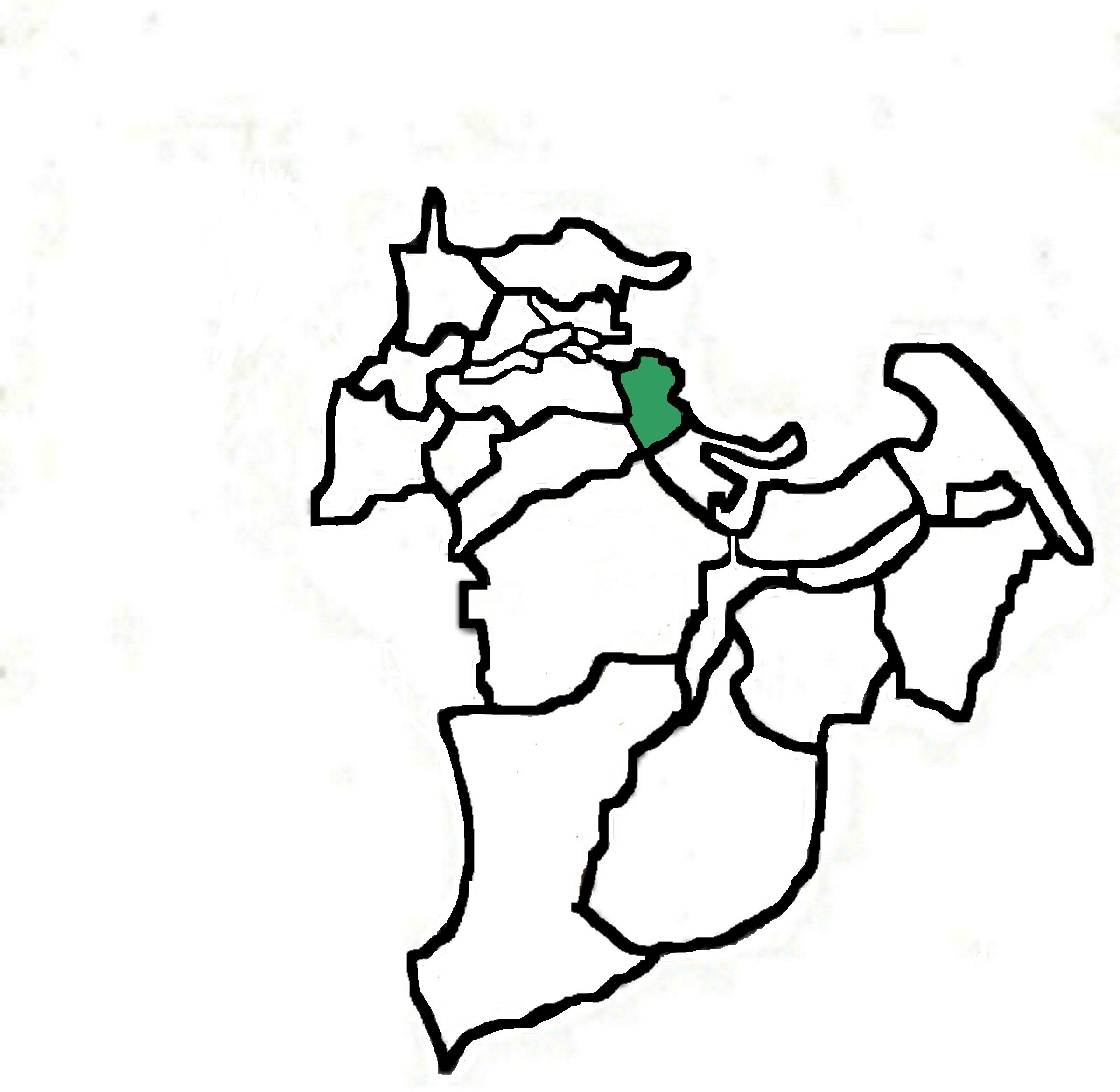 Yokosu Komatsushima Tokushima range